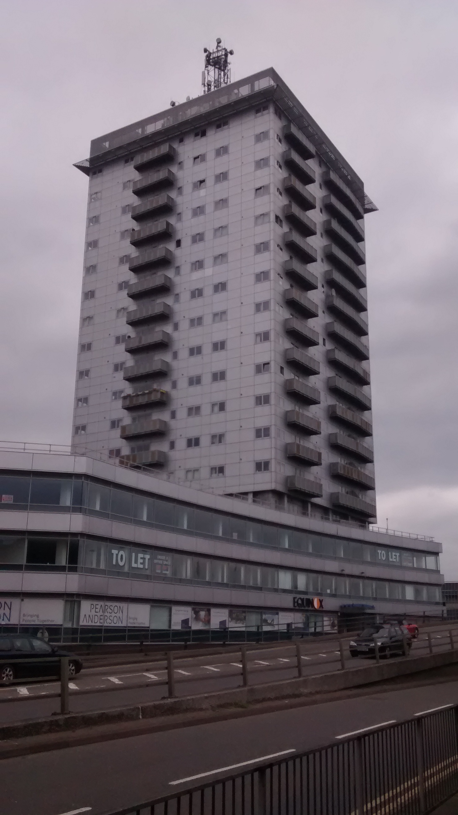 Thames Tower and Burleys Flyover, Leicester, England